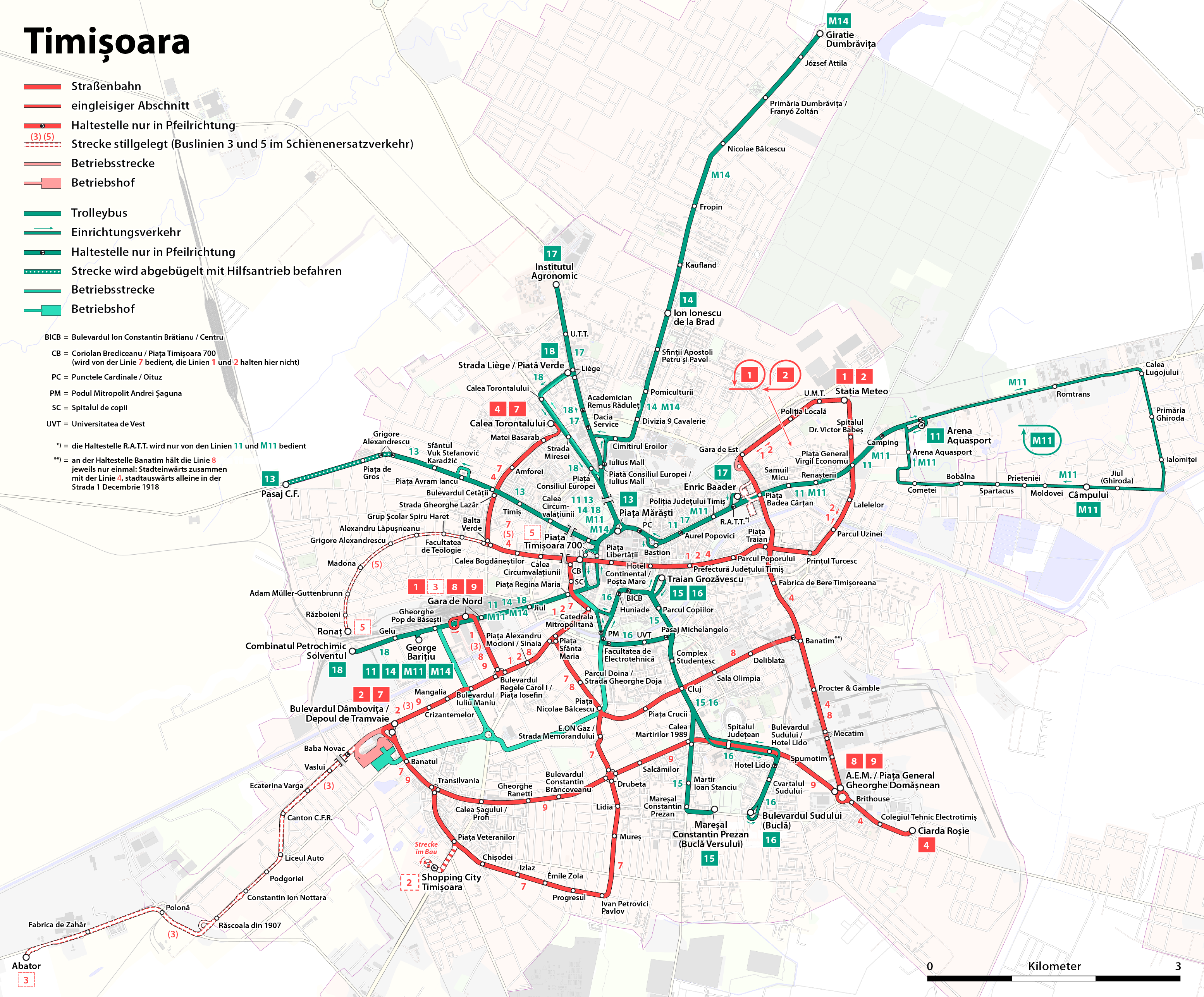 Map of the Timișoara tramway and trolleybus network 2010